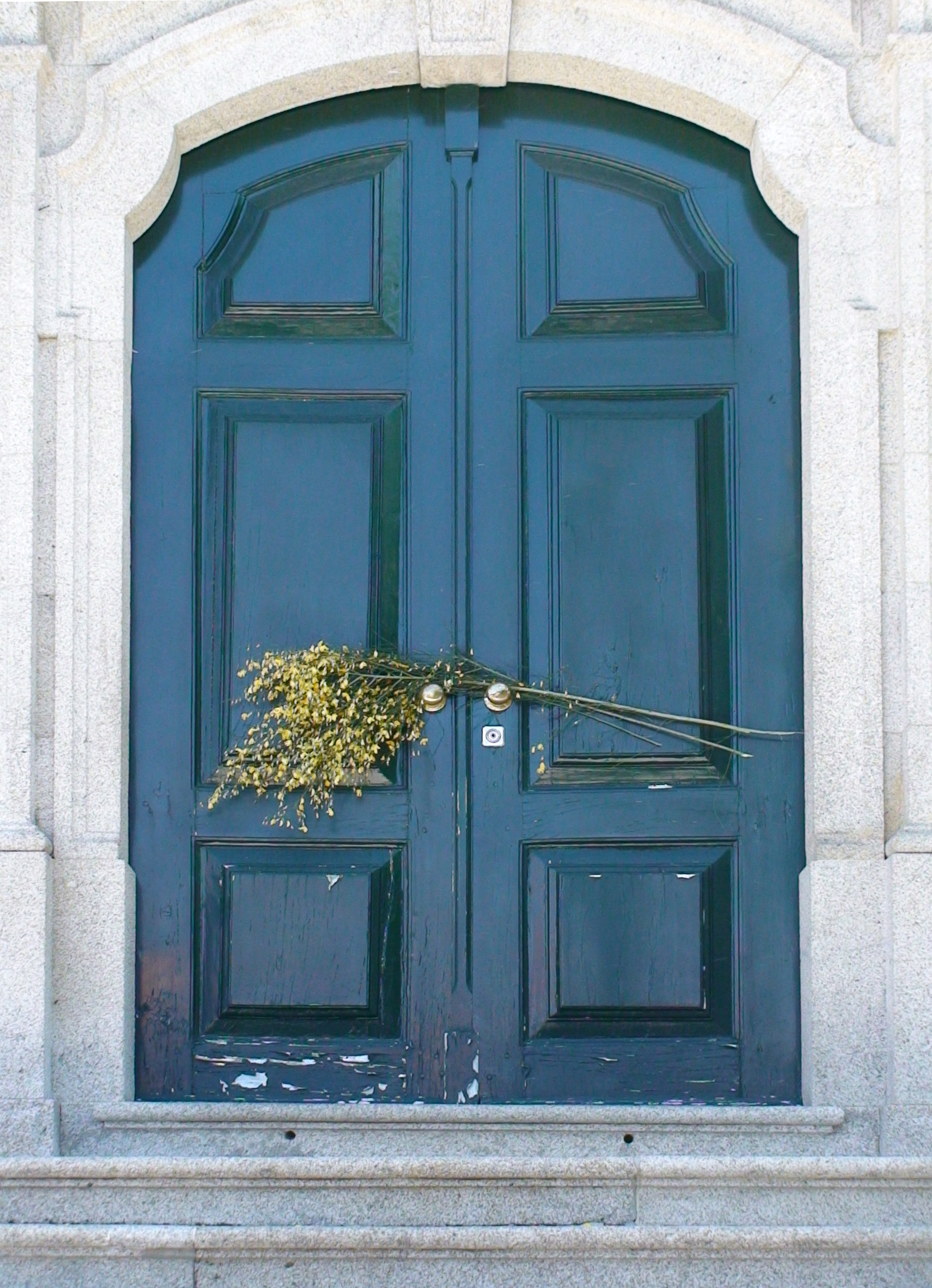 "Maias" is a Portuguese festivity celebrated on 1st May and related to the Floralia and the Roman goddess Flora. Broomrape branches are hung from doors and automobile hoods, to greet Spring, and ward off hunger (or witches) throughout the year. This picture is from the Vouzela town hall.